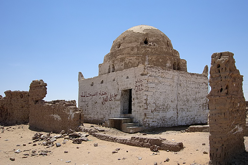 Tomb of the prince Khalid south of Bulaq and 30 kilometers south of Kharga Town, el-Kharga depression, Egypt